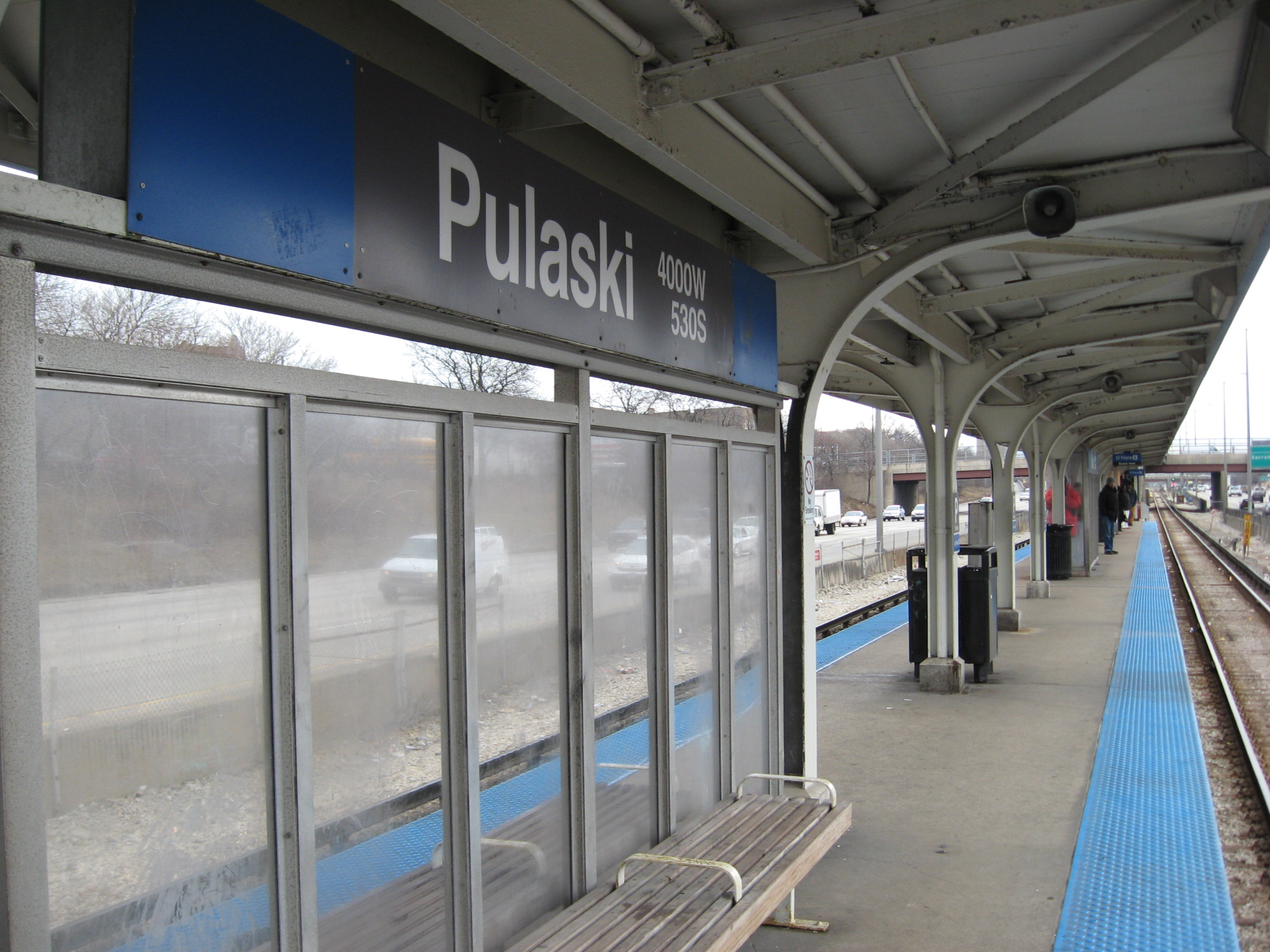 Pulaski CTA Blue Line 530 South Pulaski Road, Chicago, Illinois 60612